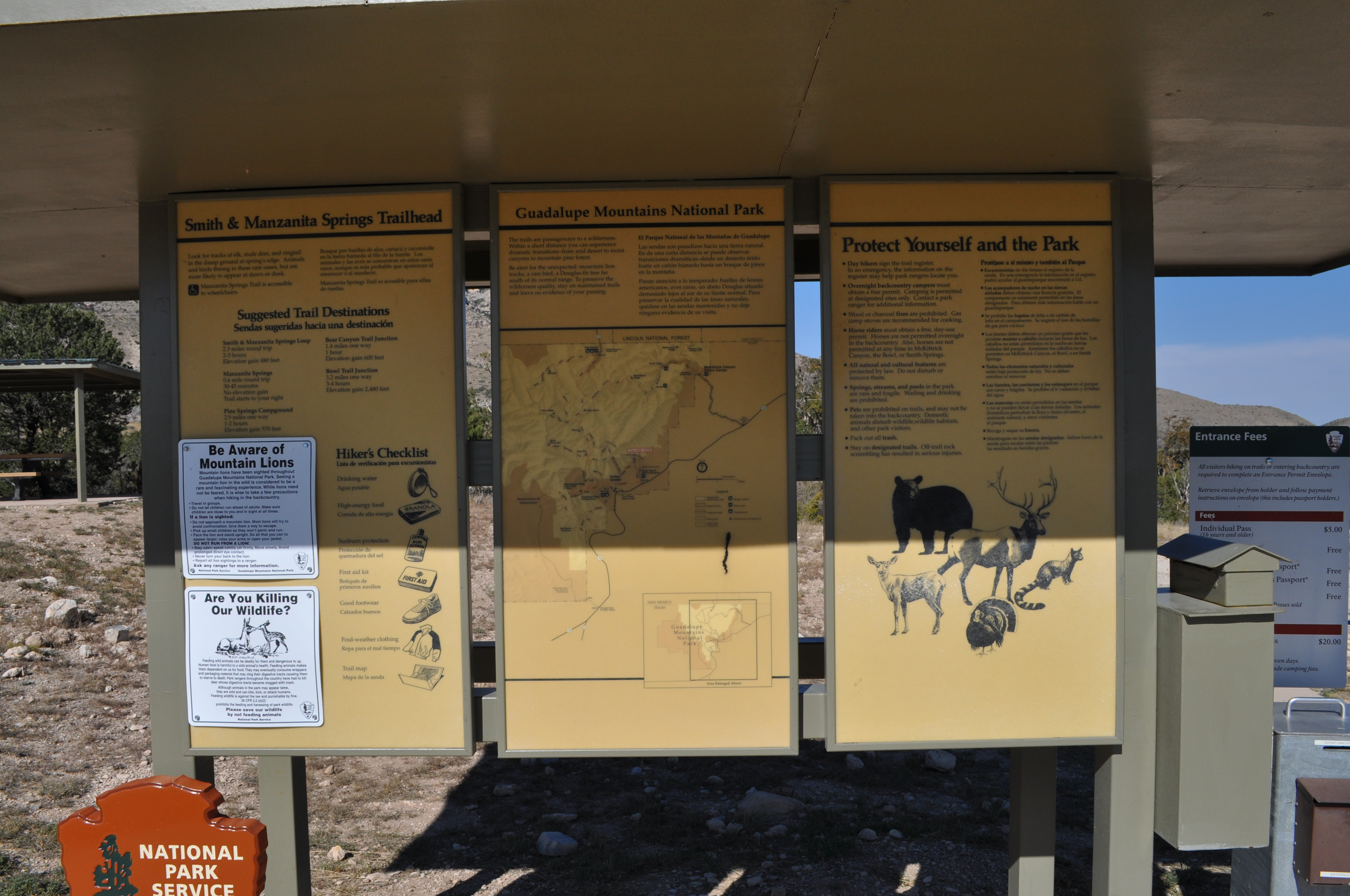 The sign at the trailhead for Smith Spring, Manzanita Spring, and Frijole Ranch in Guadalupe Mountains National Park, Texas.